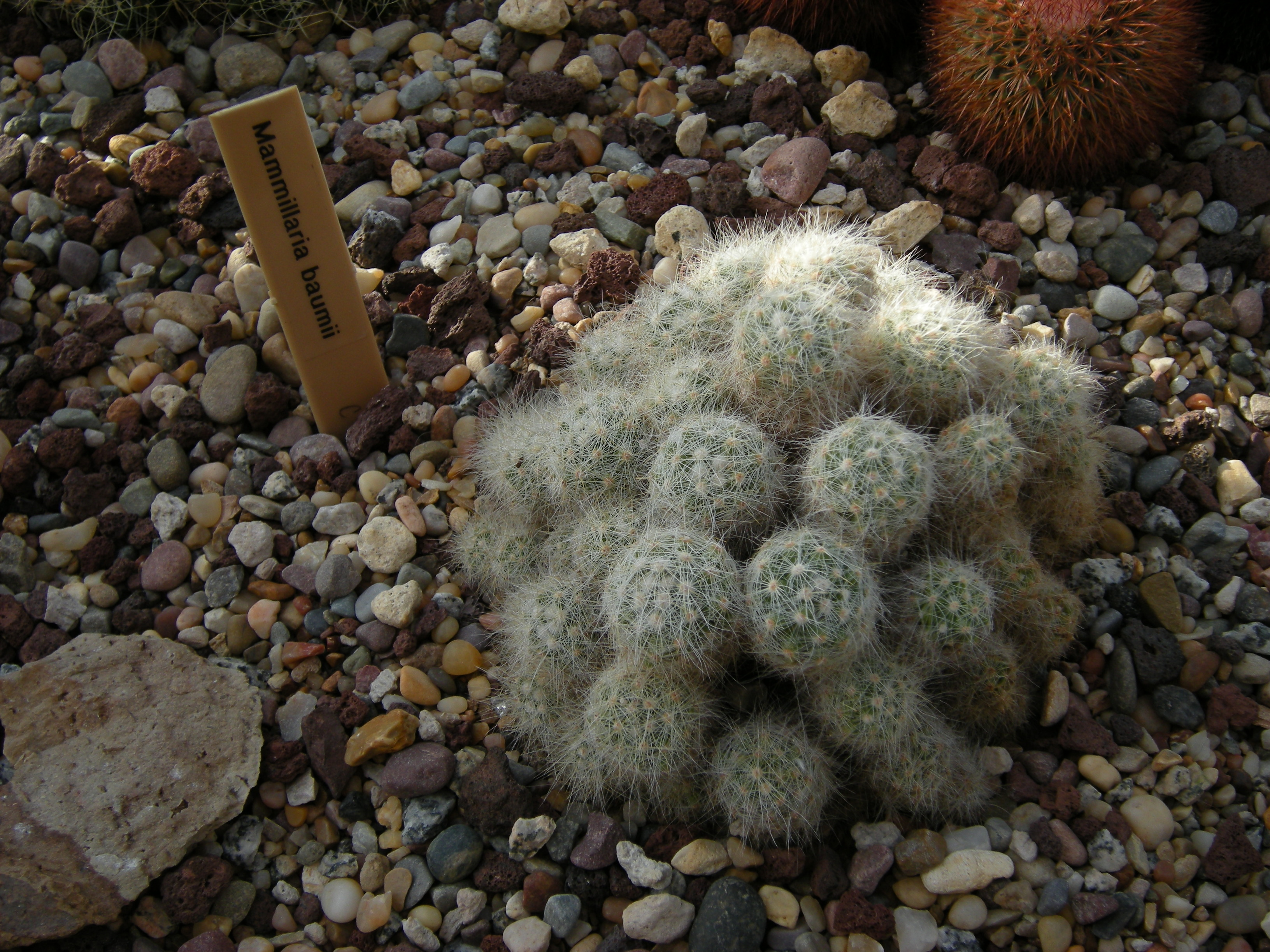 Mammillaria bamuii. Photographed at Volunteer Park Conservatory, Seattle, Washington.